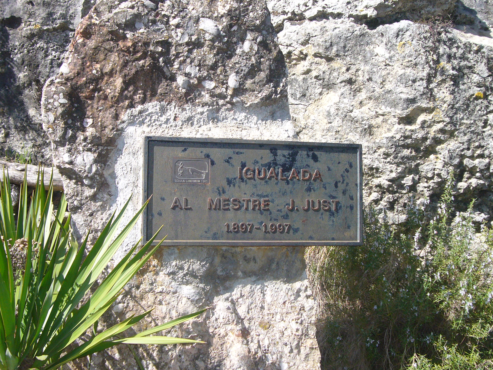 Plaque for Mestre Joan Just, located at the Tossa de Montbui, Catalonia